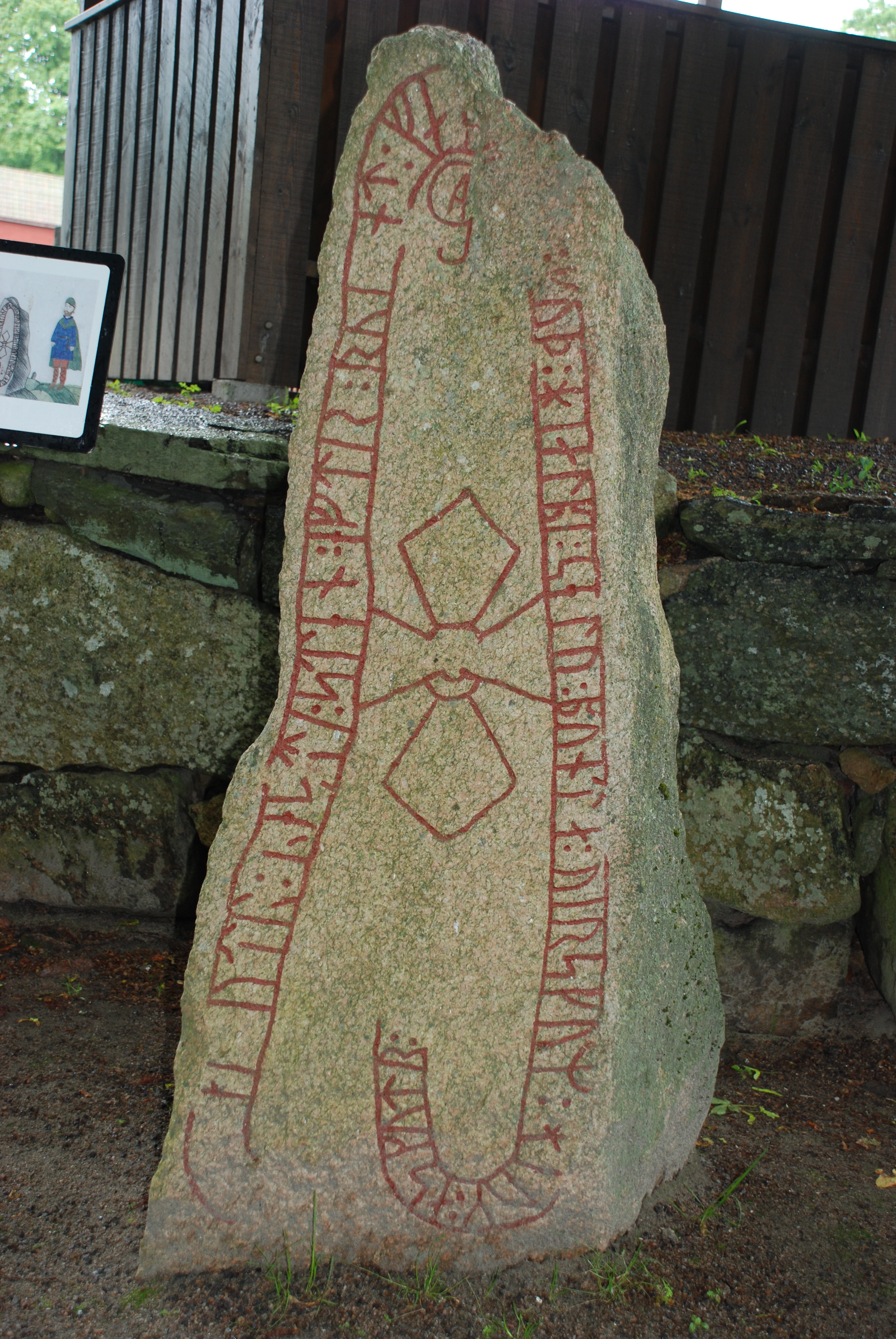 "Vignjut raised the stone after Romund his father. God help his soul. For the man of Värend Åsgjöt carved the runes."